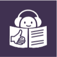 cognitive accessibility